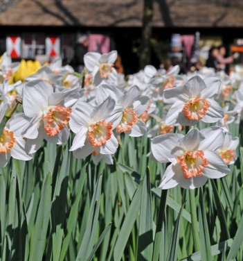 Private picture of Janis Babson Daffodil from private garden.